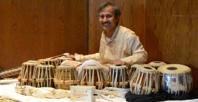 Sandip Burman performing on the tabla tarang at the University of Chicago in 2015